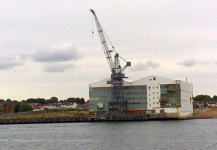 Author/Source: Unessential Vosper Thornycrofts old ship building site in Woolston, Southampton